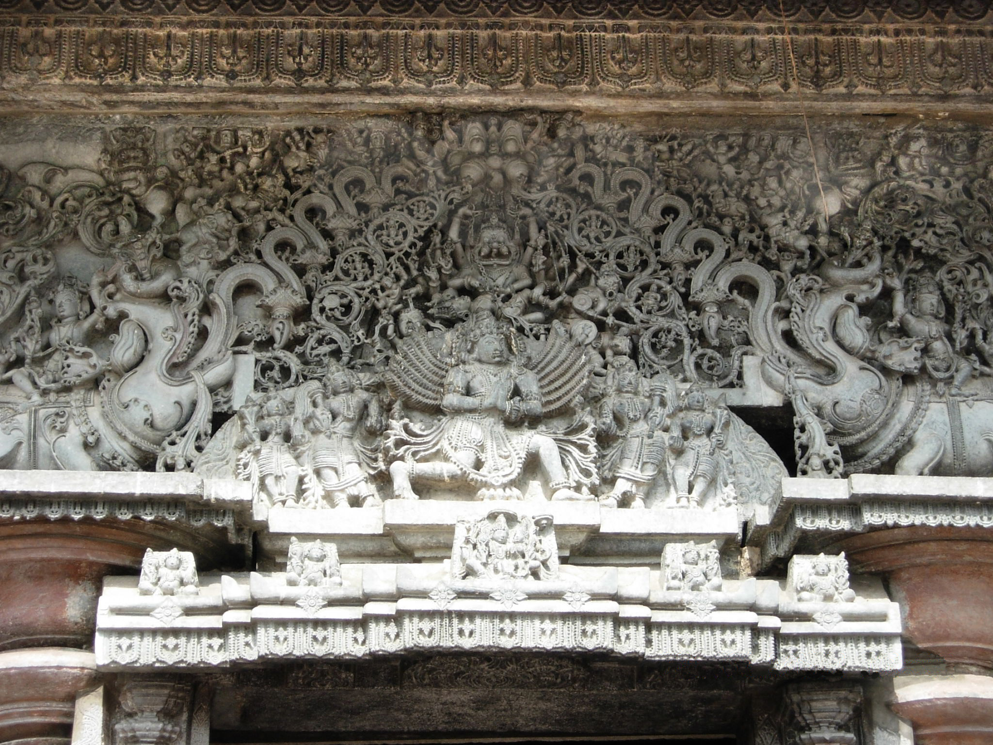 The carvings at the entrance of Chennakesava temple, Belur.